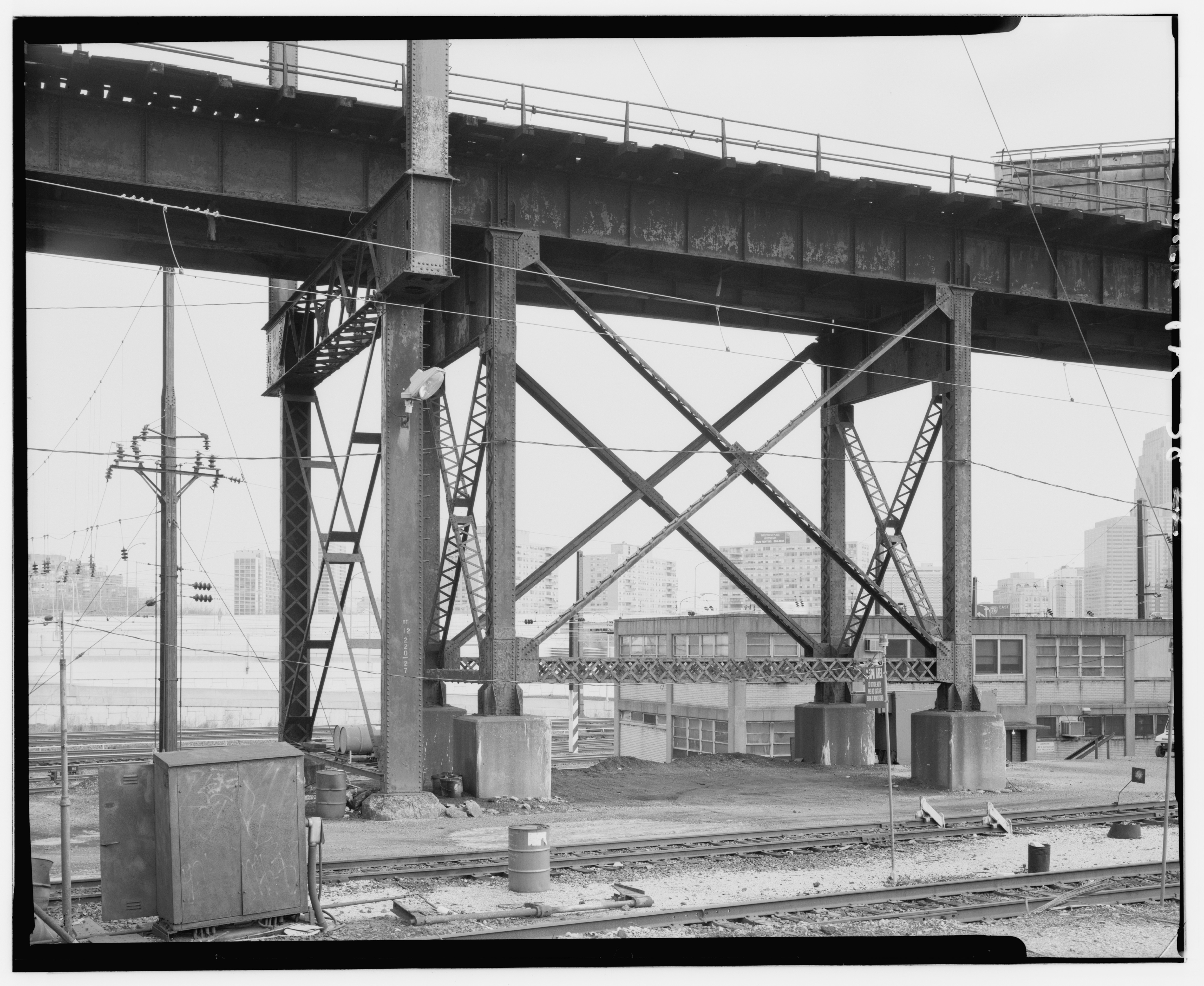 Detail of a steel brace on theWest Philadelphia in Philadelphia, Pennsylvania. Every two consecutive steel pillars are connected to such a framework. The beams on the left belong to the catenary poles.